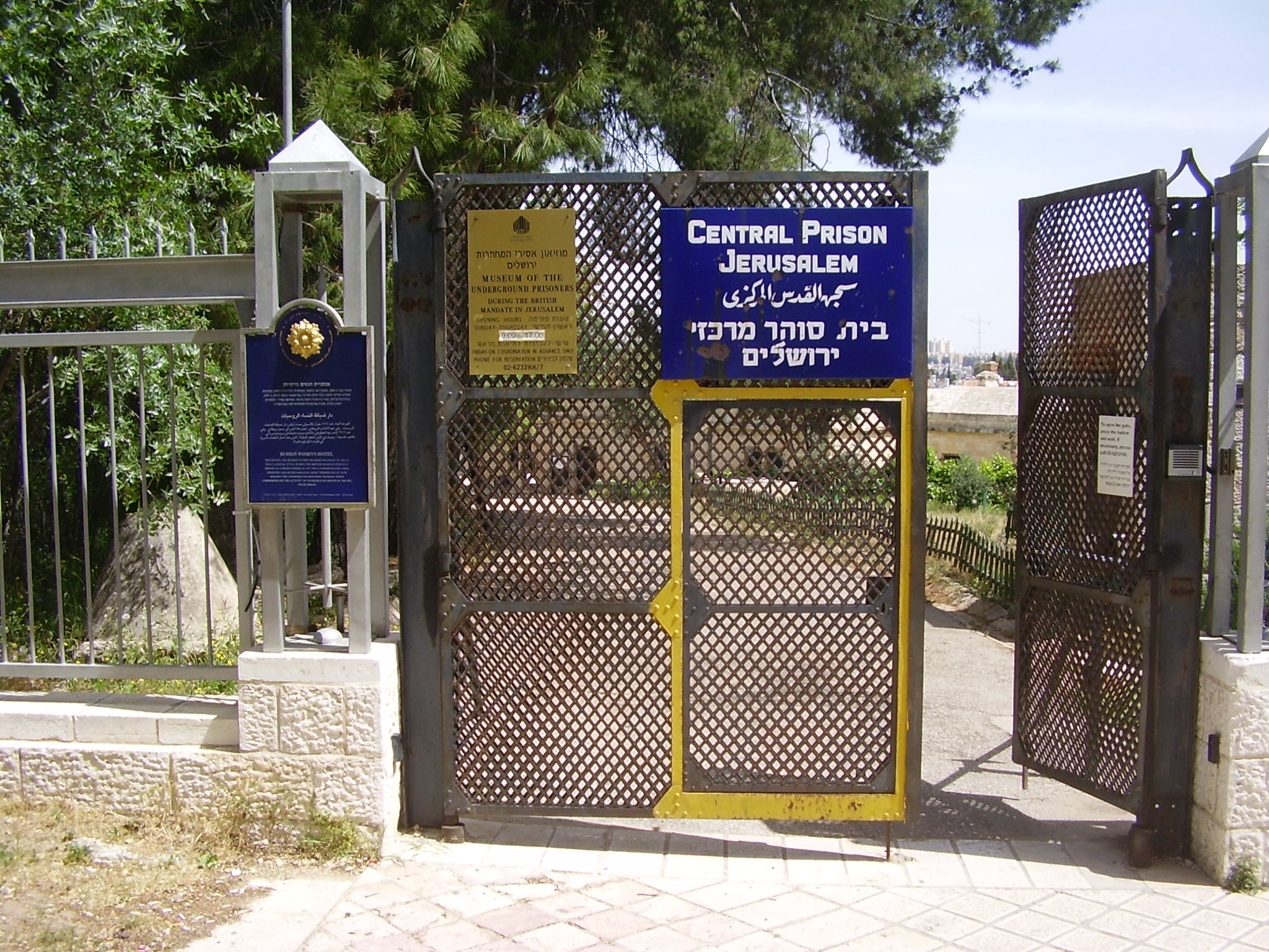 museum of the underground prisoners in jerusalem